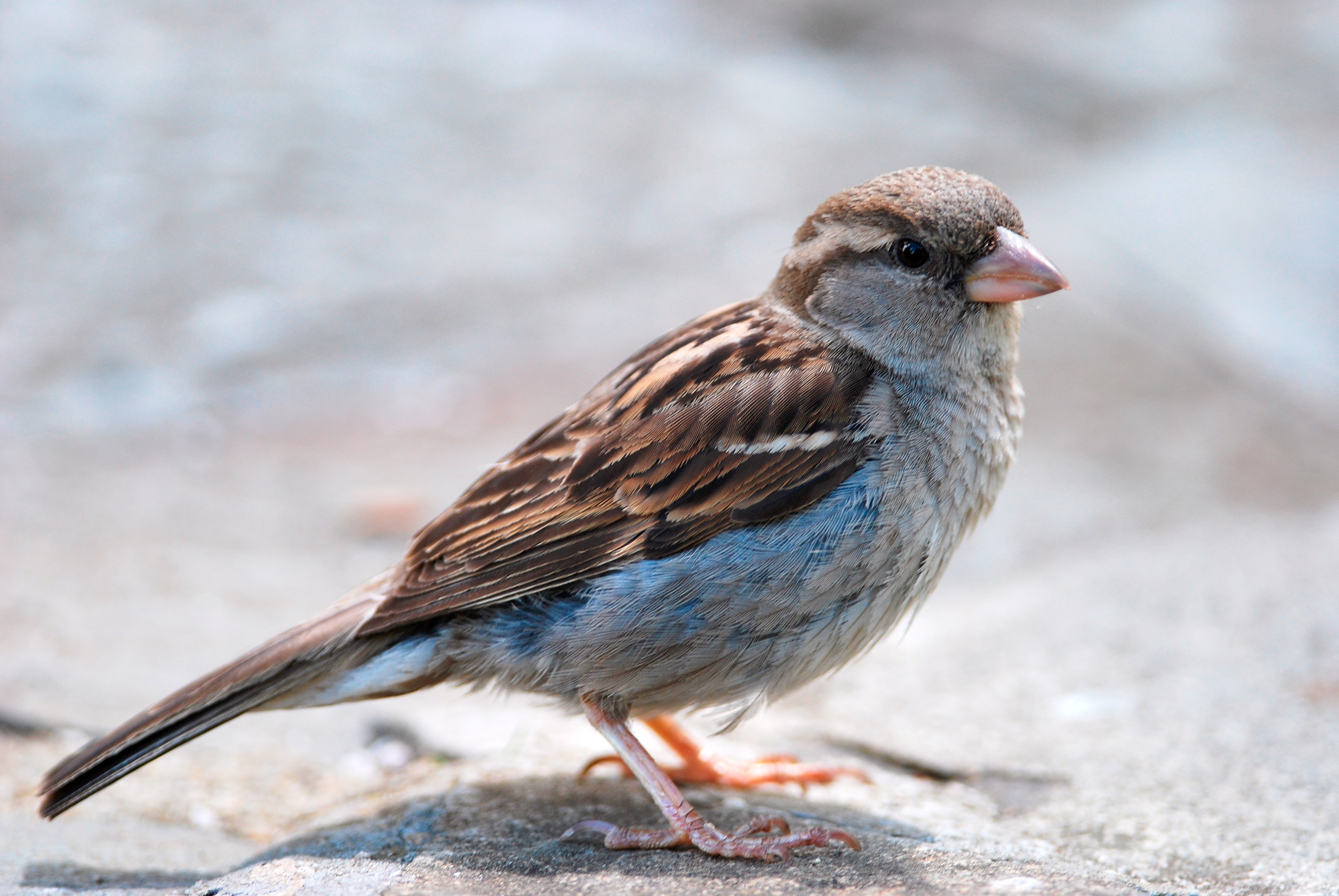 Domestic Sparrow (Passer domesticus) in City Park, Launceston, South Australia